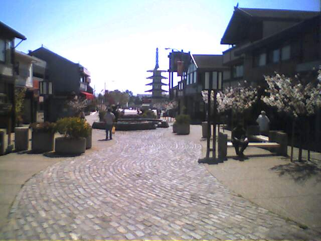 Japantown, San Francisco, USA